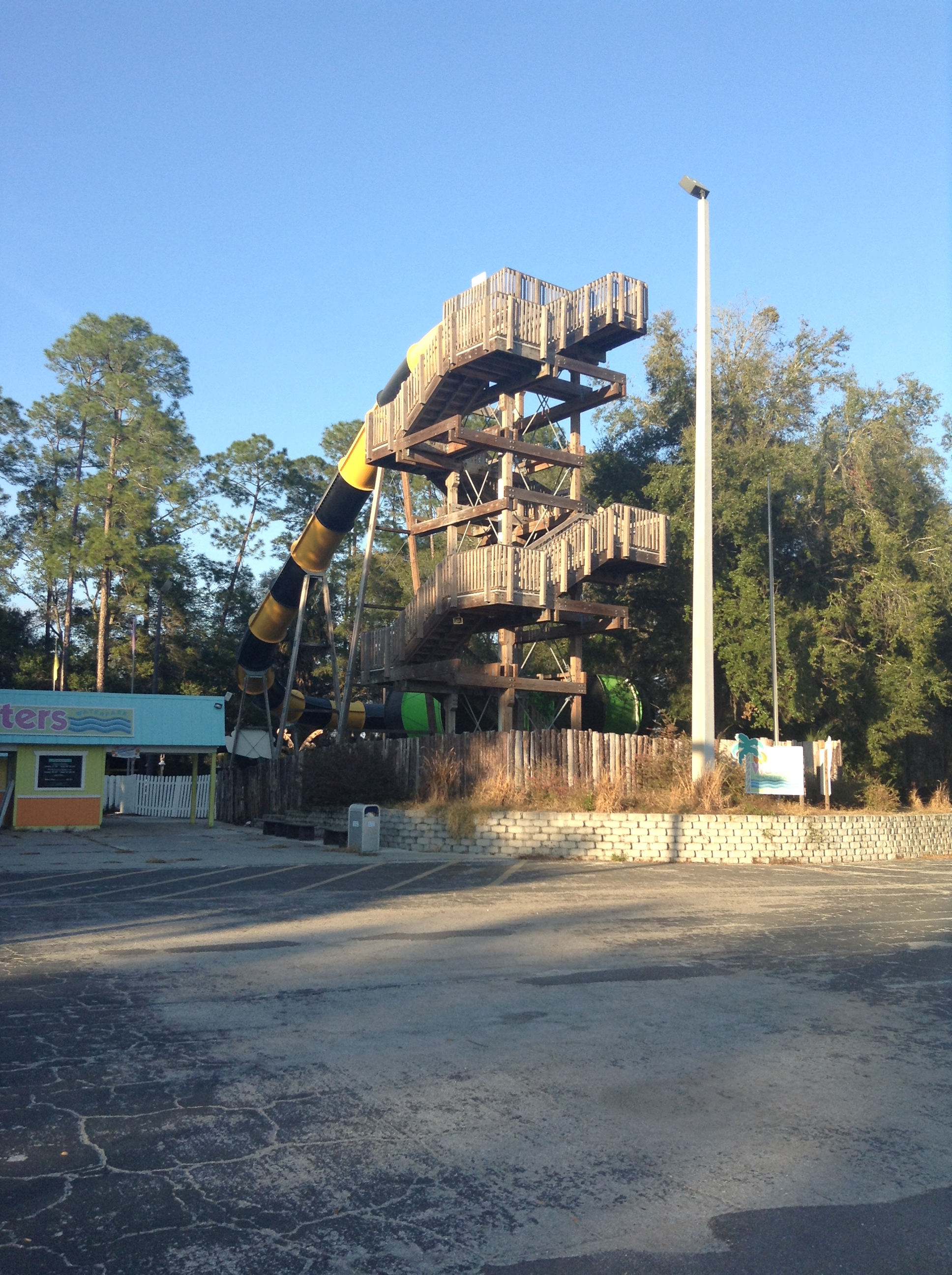 A view of the "Alligator Ambush" waiting quota from the entrance of Wild Waters.